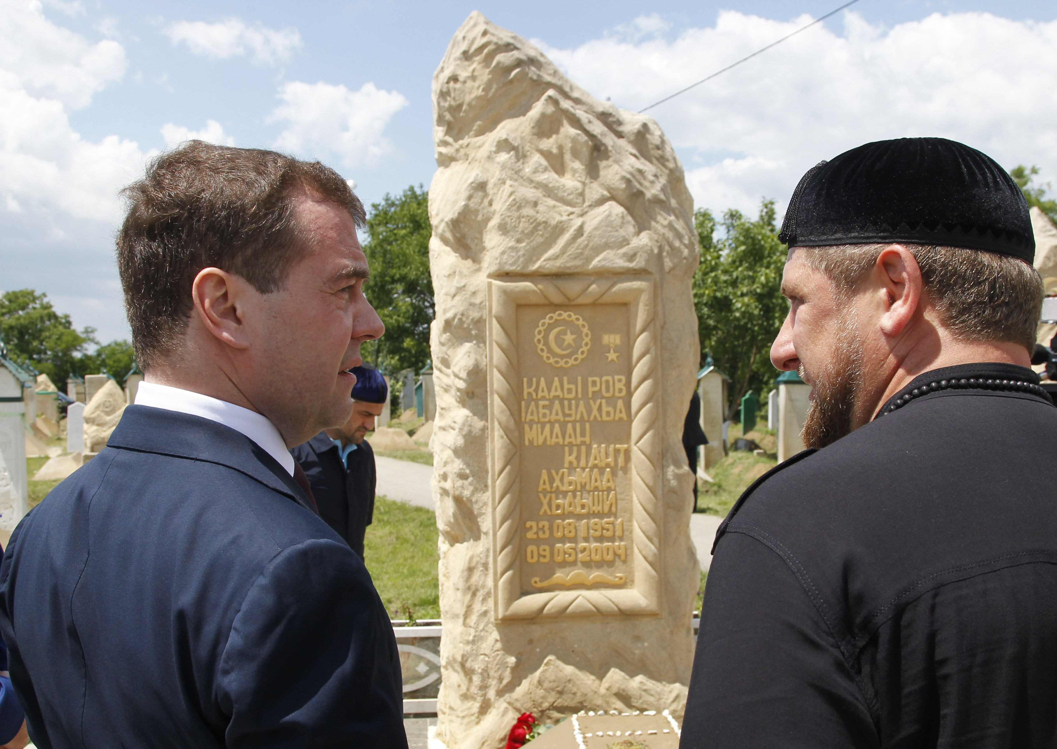 Russian Prime Minister Dmitry Medvedev and the Head of the Chechen Republic Ramzan Kadyrov at the grave of the first President of Chechnya Akhmad Kadyrov at the village of Tsentaroy, Chechen Republic.